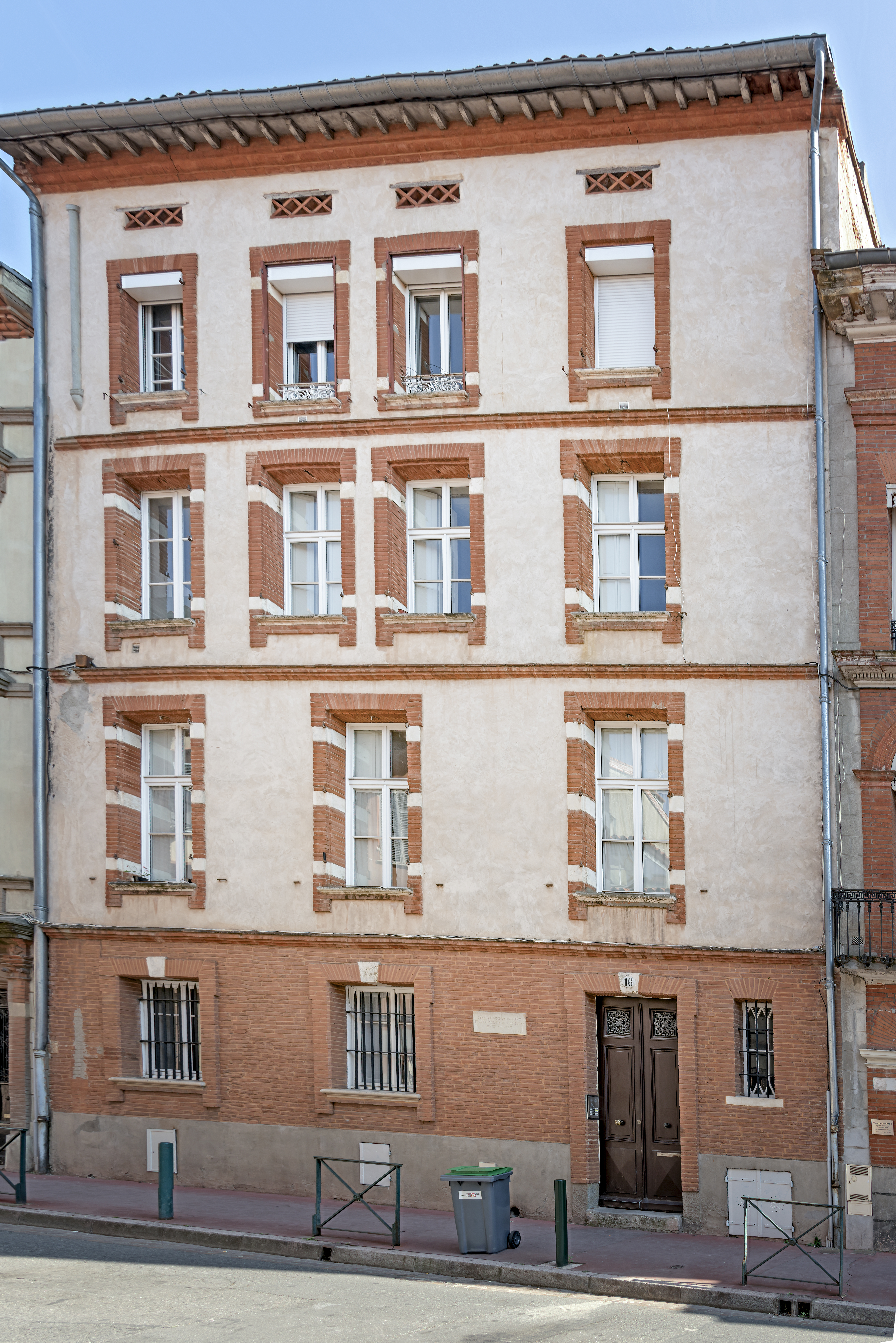 Rue des Fleurs in Toulouse, N ° 16 house and observatory of François Garipuy.